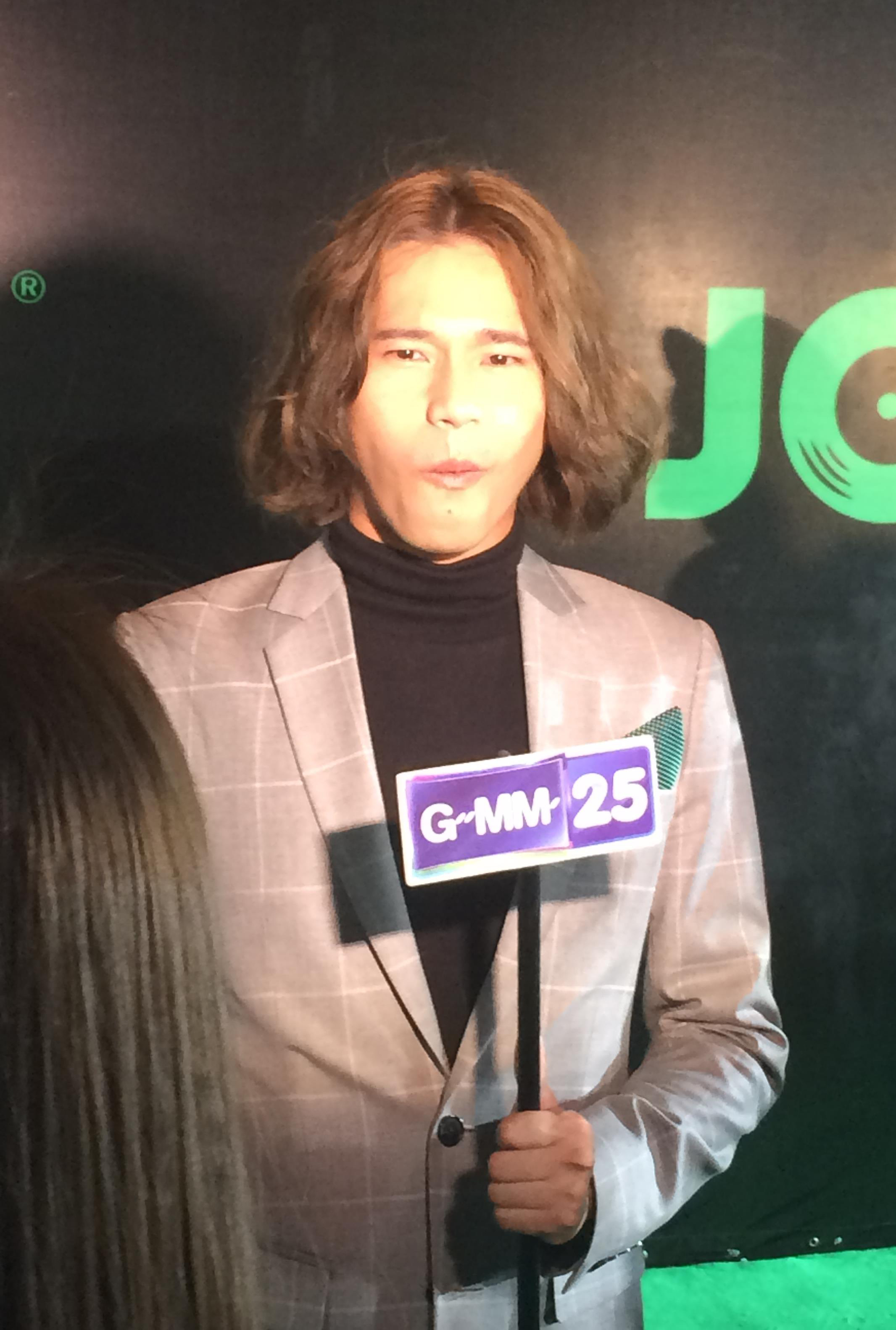 Dew Nontanun at Joox Music Awards 2017